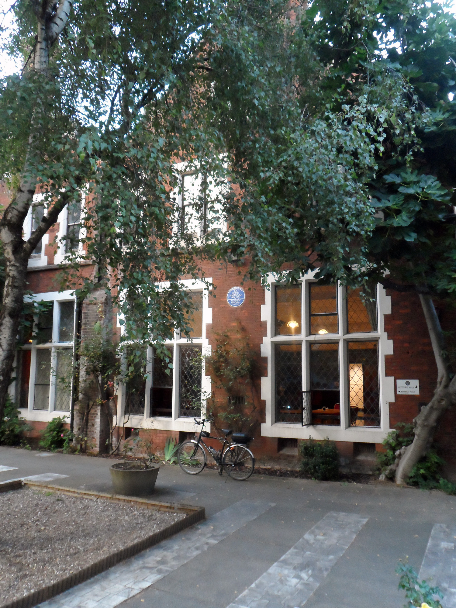 Establishes location of Dr Jimmy Mallon GLC blue plaque